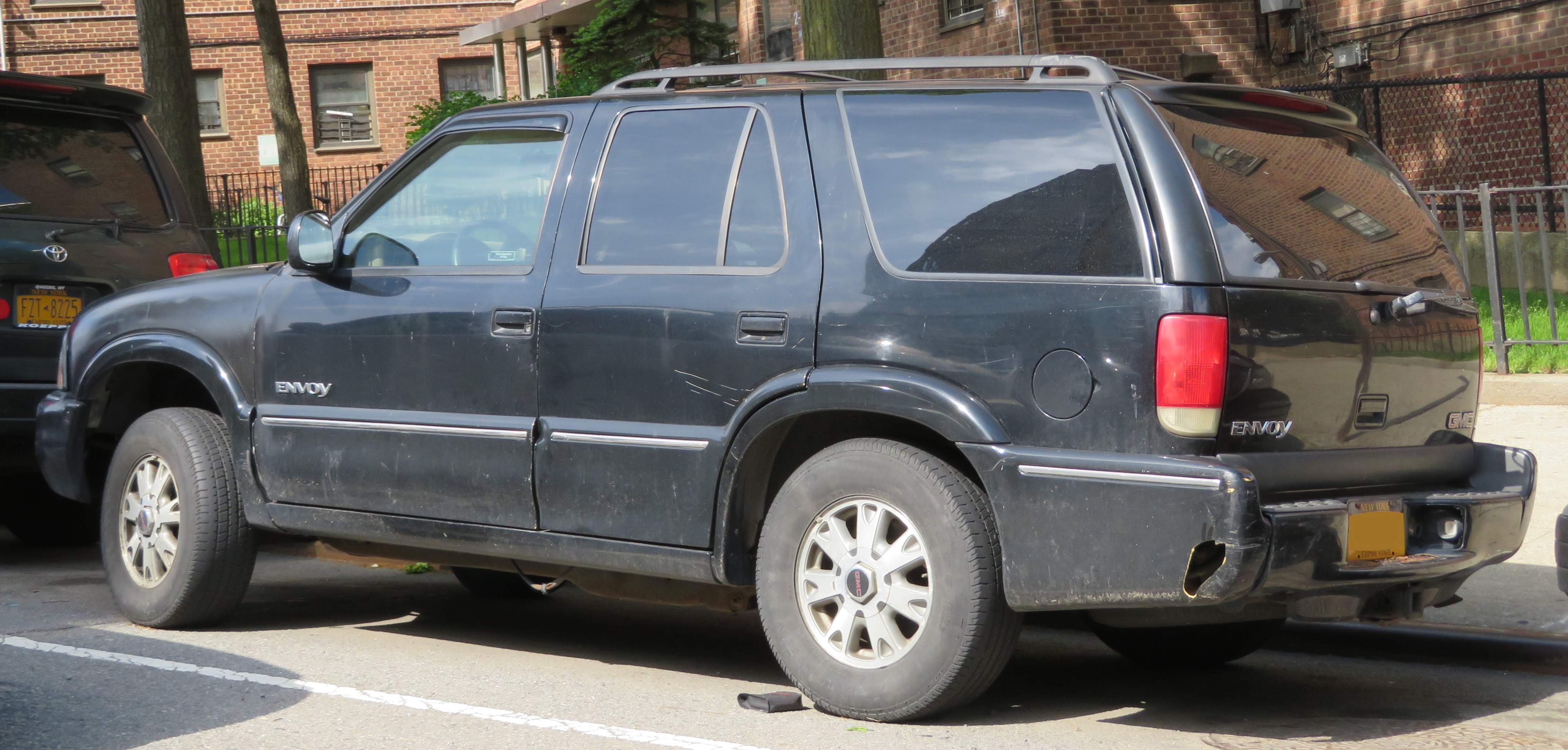 Photographed in Flushing(Queens), New York